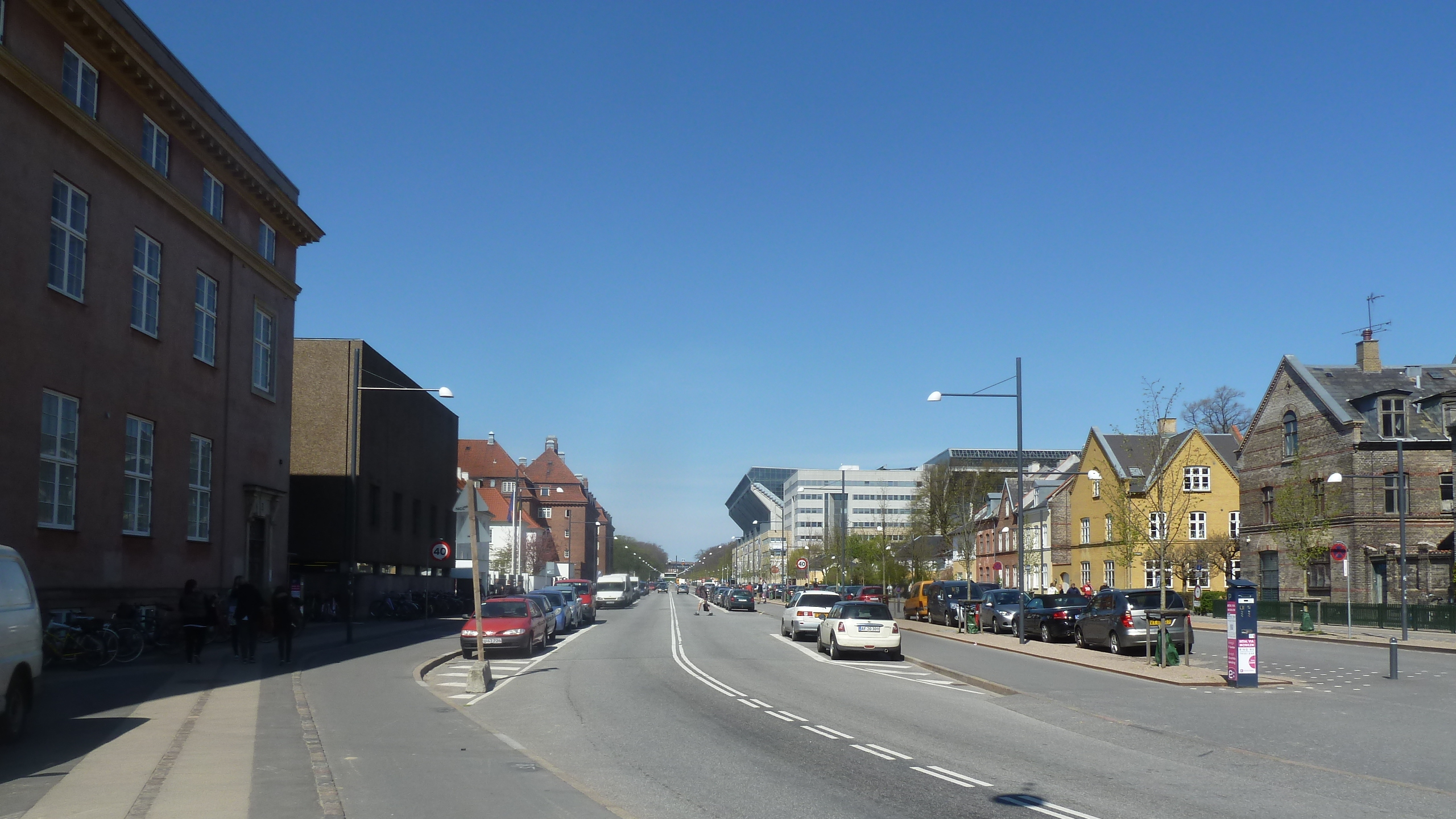 The street Øster Alle in Østerbro in Copenhagen. The big building in the middle is the danish national stadium Parken